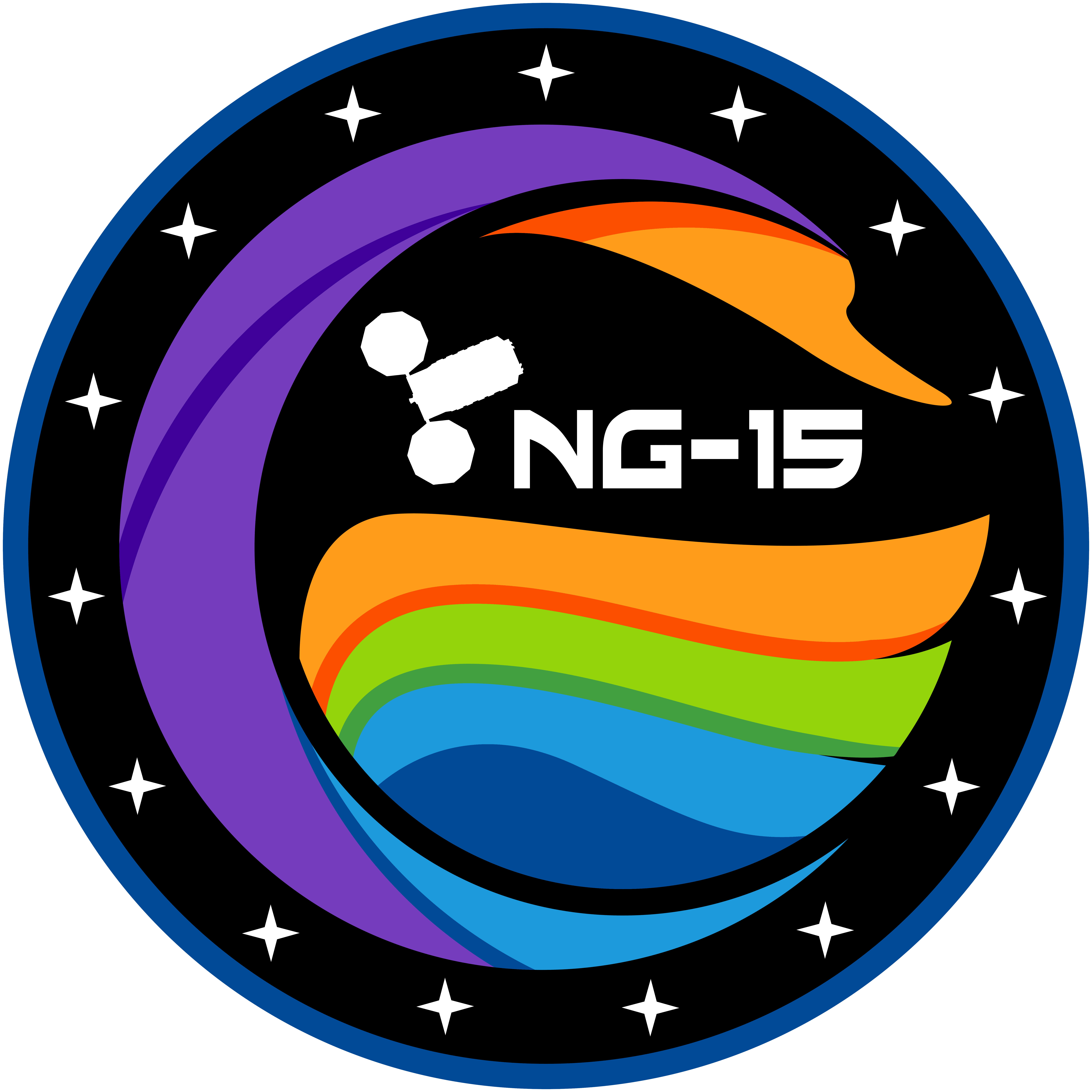 NASA logo for Northrop Grumman's NG-15 Cygnus, the fourth Commercial Resupply Services (CRS)-2 mission